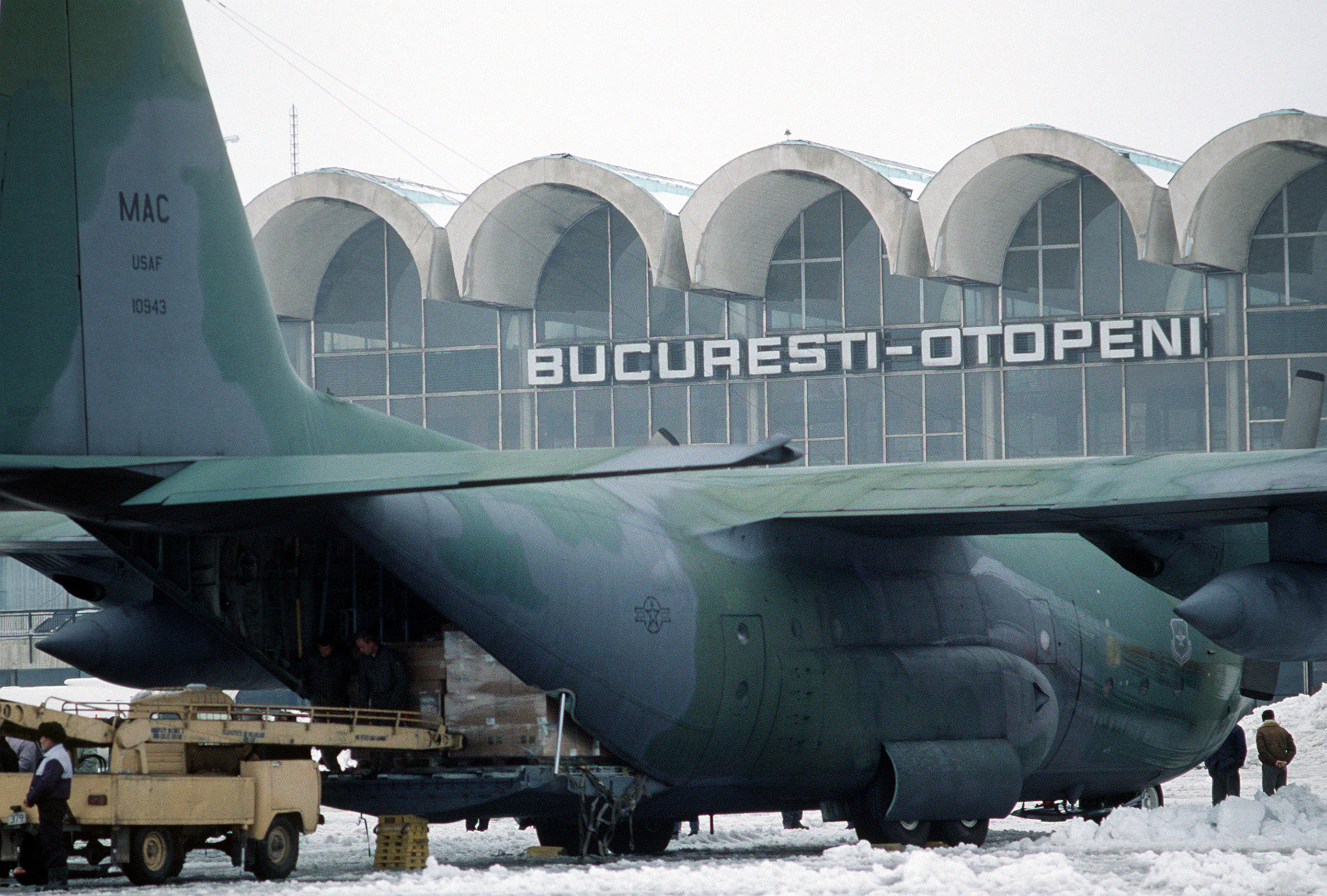 Medical supplies from the U.S. Army Medical Materiel Center in Pirmasens, West Germany, are unloaded from a 37th Tactical Airlift Squadron C-130 Hercules aircraft at the Bucharest airport. Provided by the 7th Medical Command, the supplies are part of relief effort for citizens of the revolt-torn country.